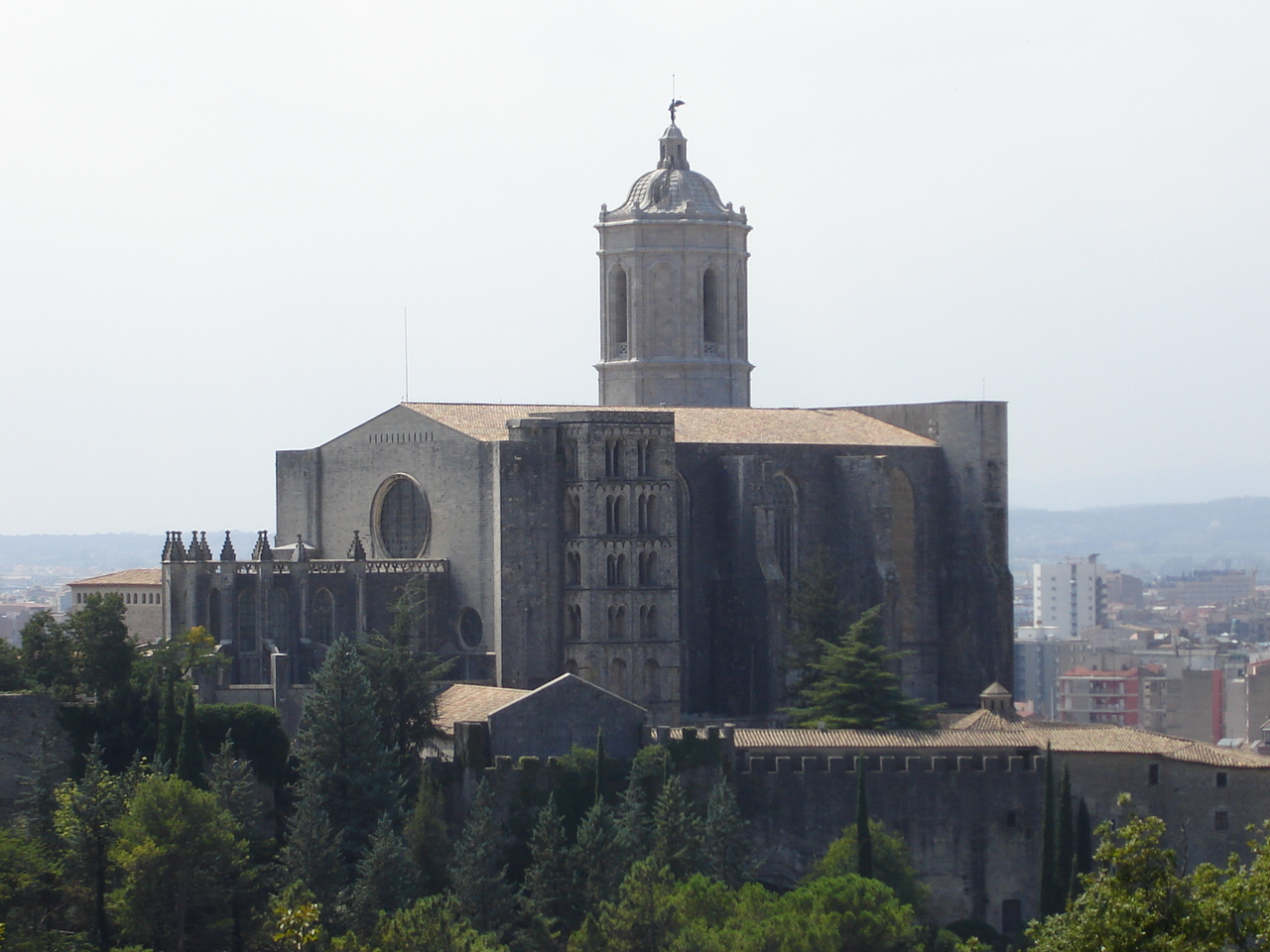 Cathedral in Girona, view from Montjuïc